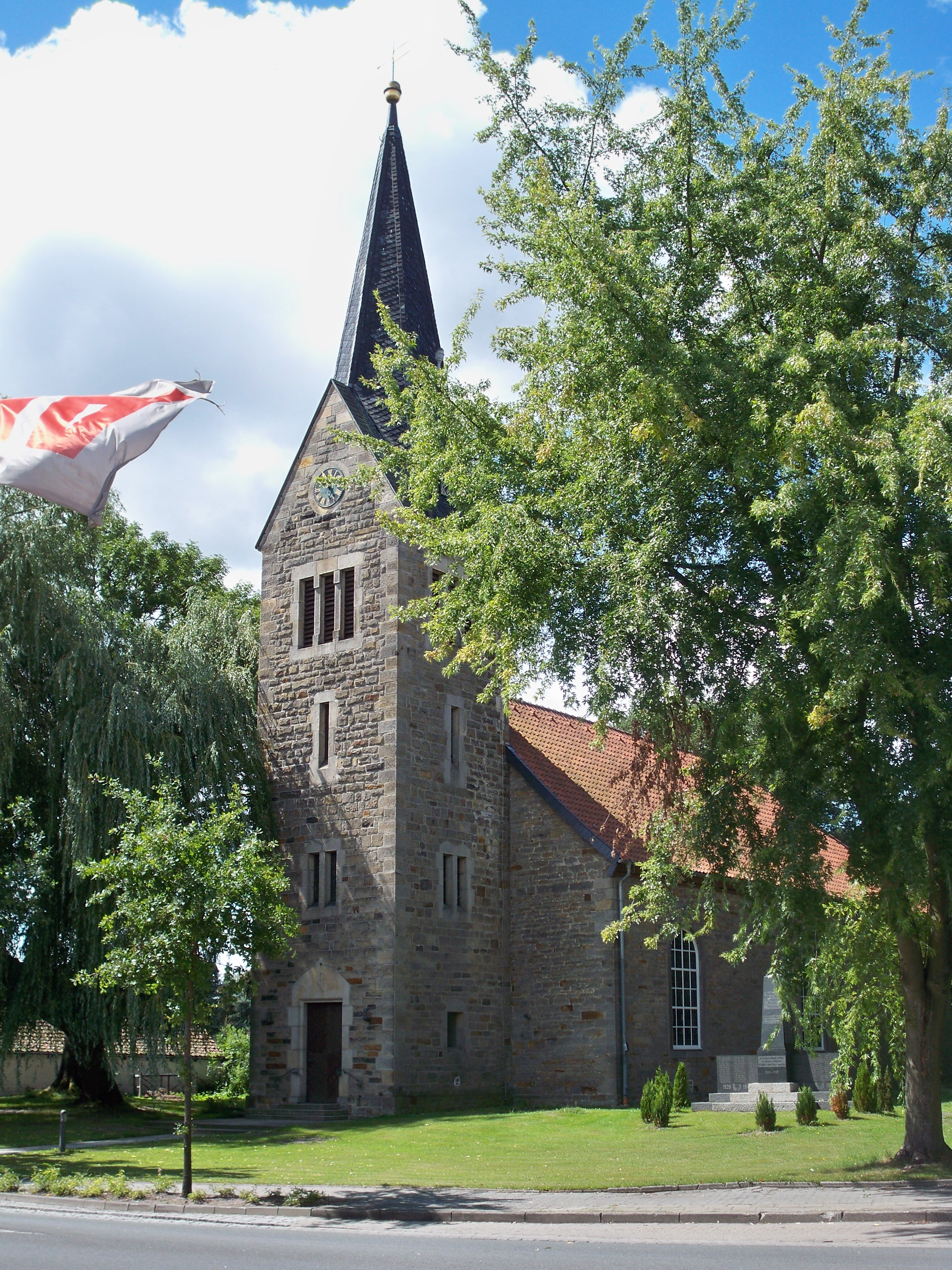 Parsau, Lower Saxony, church building, Christuskirche